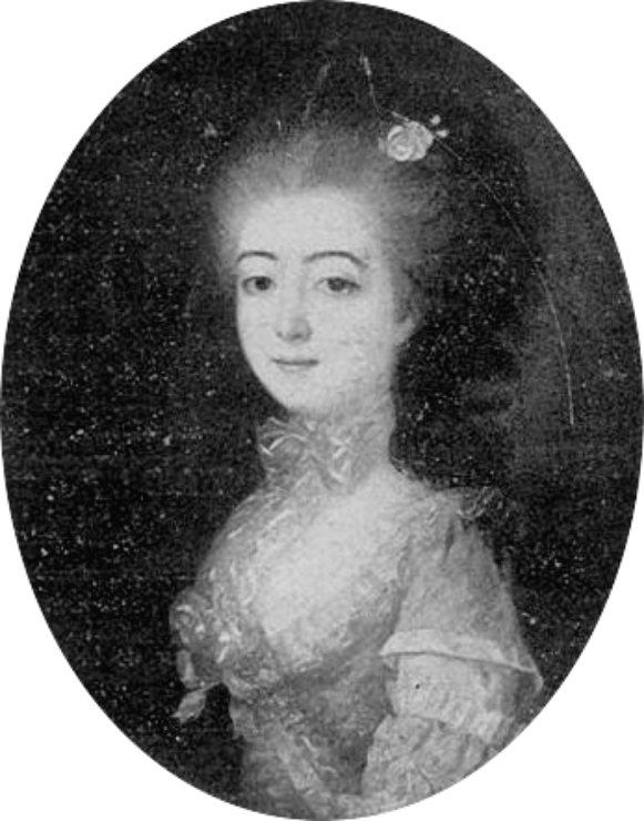 Portrait of Jeanne-Louise-Françoise de Sainte-Amaranthe.